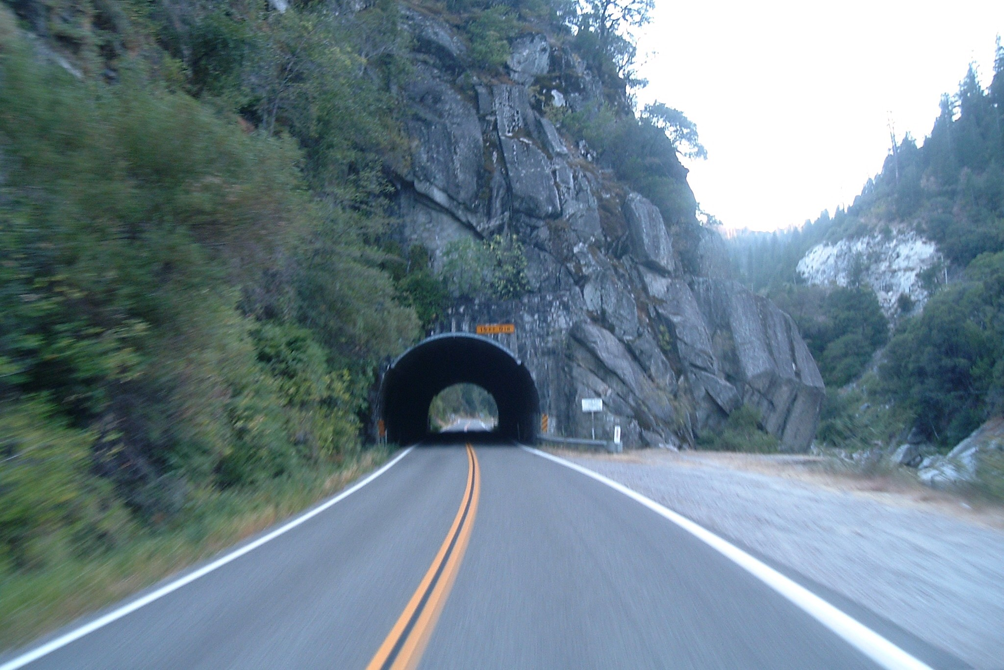 Tunnel along California State Route 70